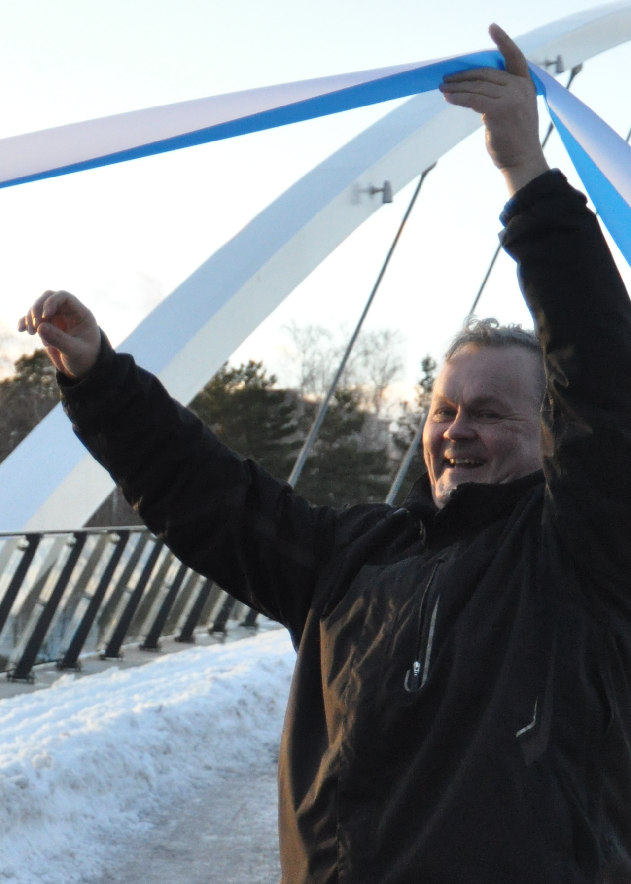 Jarmo Nieminen is a Finnish non-fiction writer.